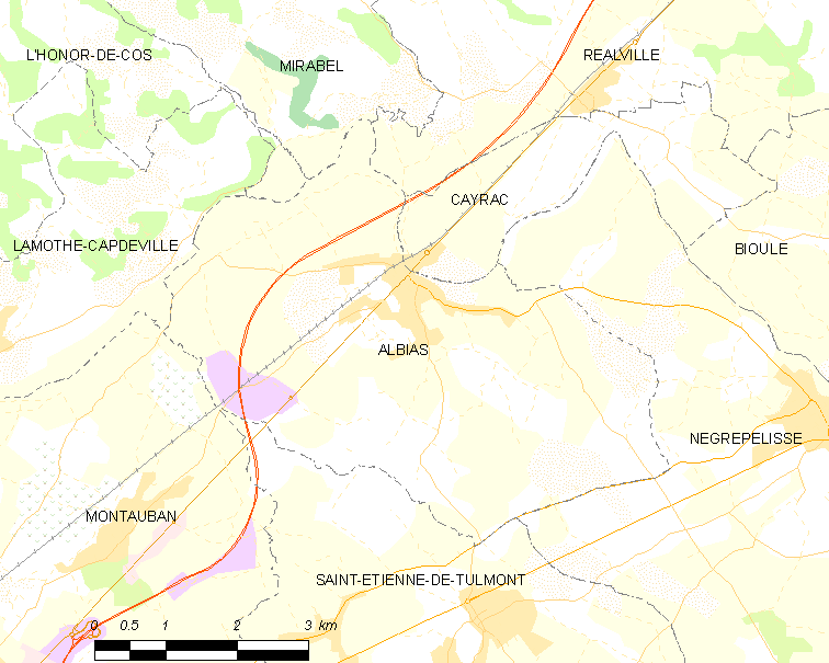 Map of French municipality Albias